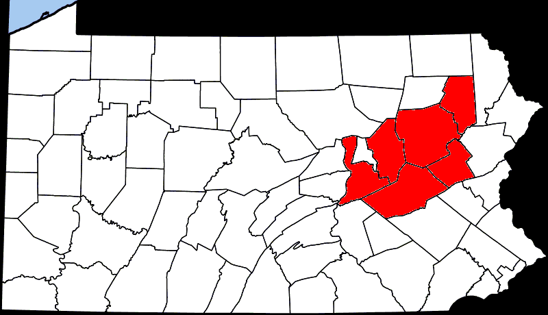 altered version of (Public domain map courtesy of The General Libraries, The University of Texas at Austin, modified to show counties relevant to article. Released under GFDL. See Wikipedia:U.S. county maps.)